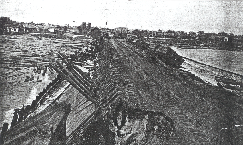 Damage in Pensacola after the 1906 hurricane. Retrieved from the Monthly Weather Review for September 1906.